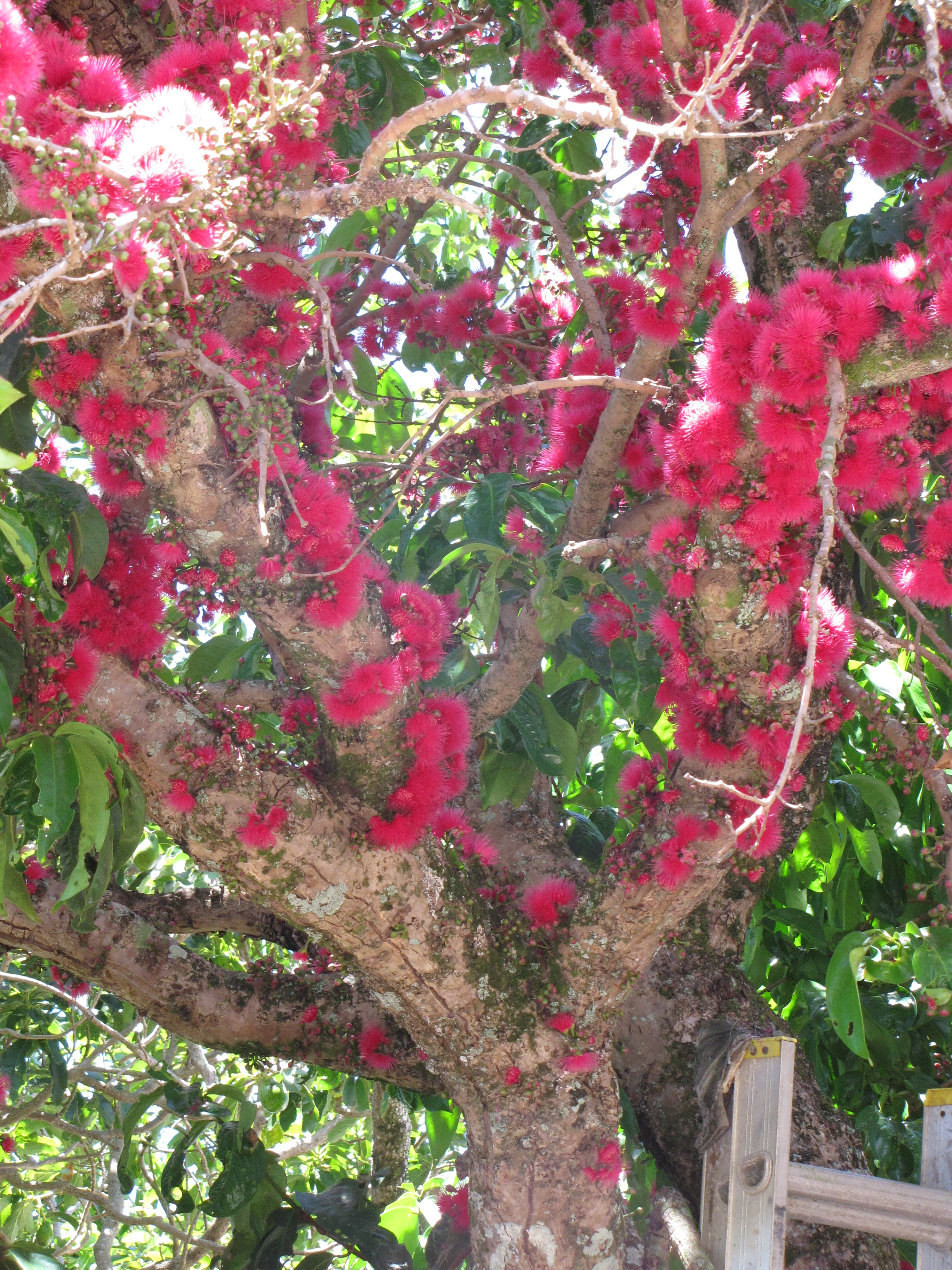 Syzygium malaccense (Mountain apple) Flowers on trunk at Haiku, Maui, Hawaii. June 09, 2009 #090609-0362 Image Use Policy Also known as Eugenia malaccensis.